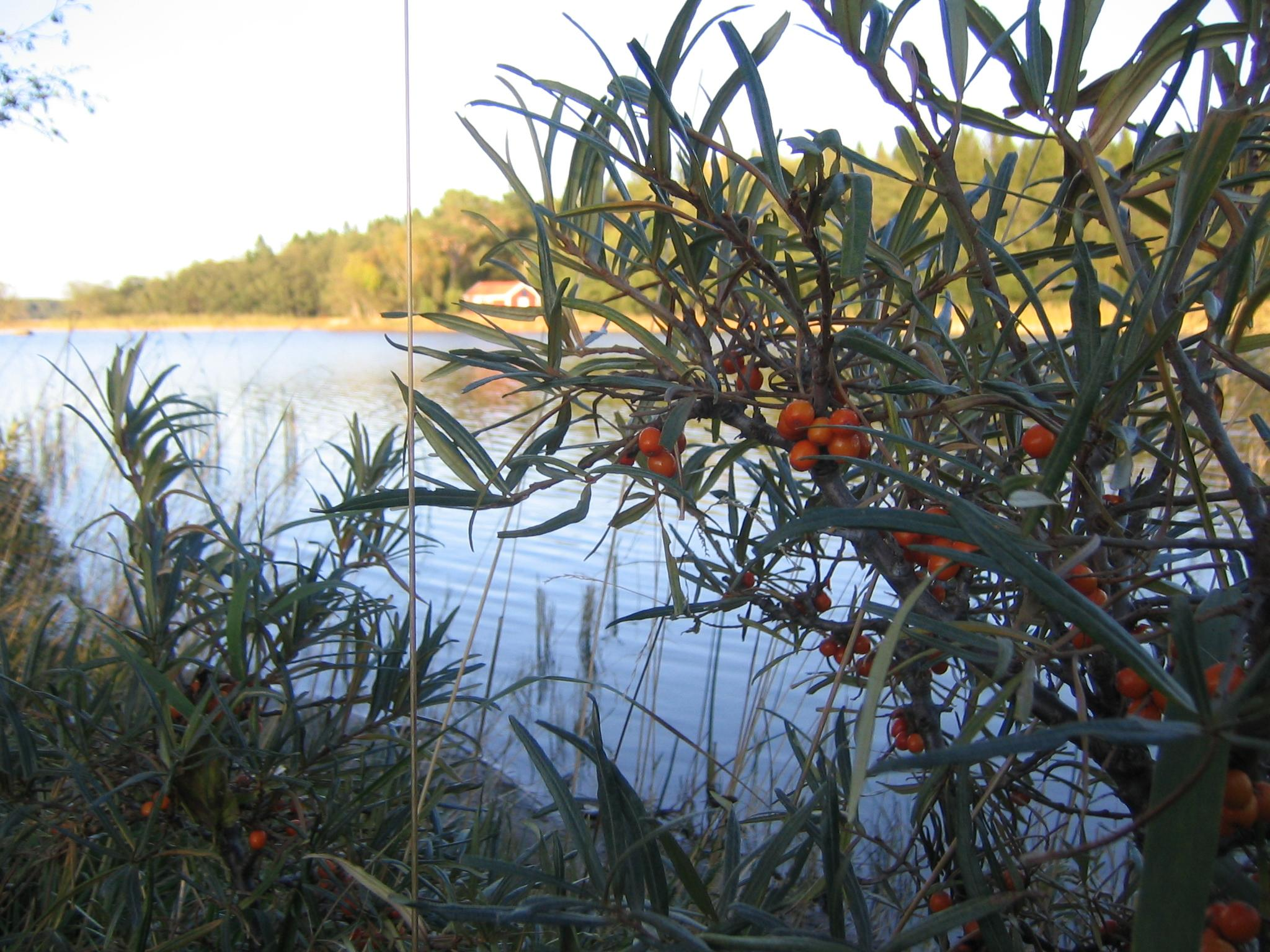 Sea-buckthorn is a Scandinavian wildberry. This picture is from the village of Rågetsböle on the Åland Islands, Finland.